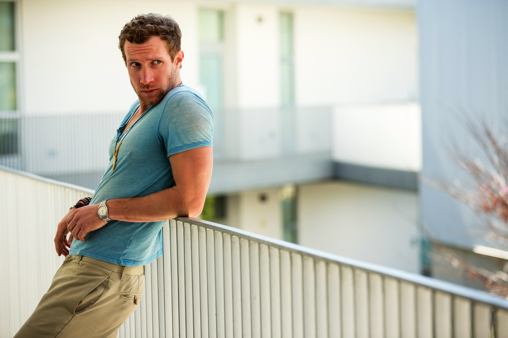 Image of Jamie Maclachlan